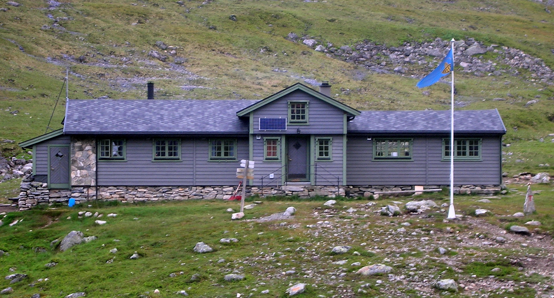 Patchellhytta in Sunnnmørsalpene in Norway